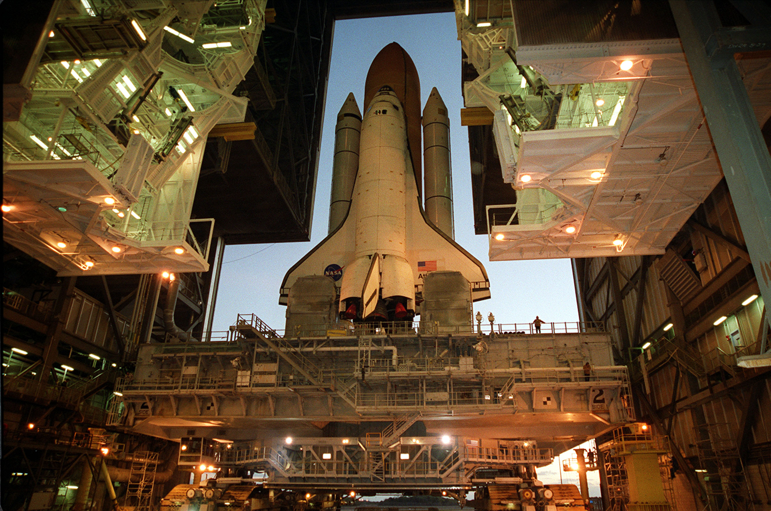 Space Shuttle Atlantis begins rolling out of the Vehicle Assembly Building to Launch Pad 39A.